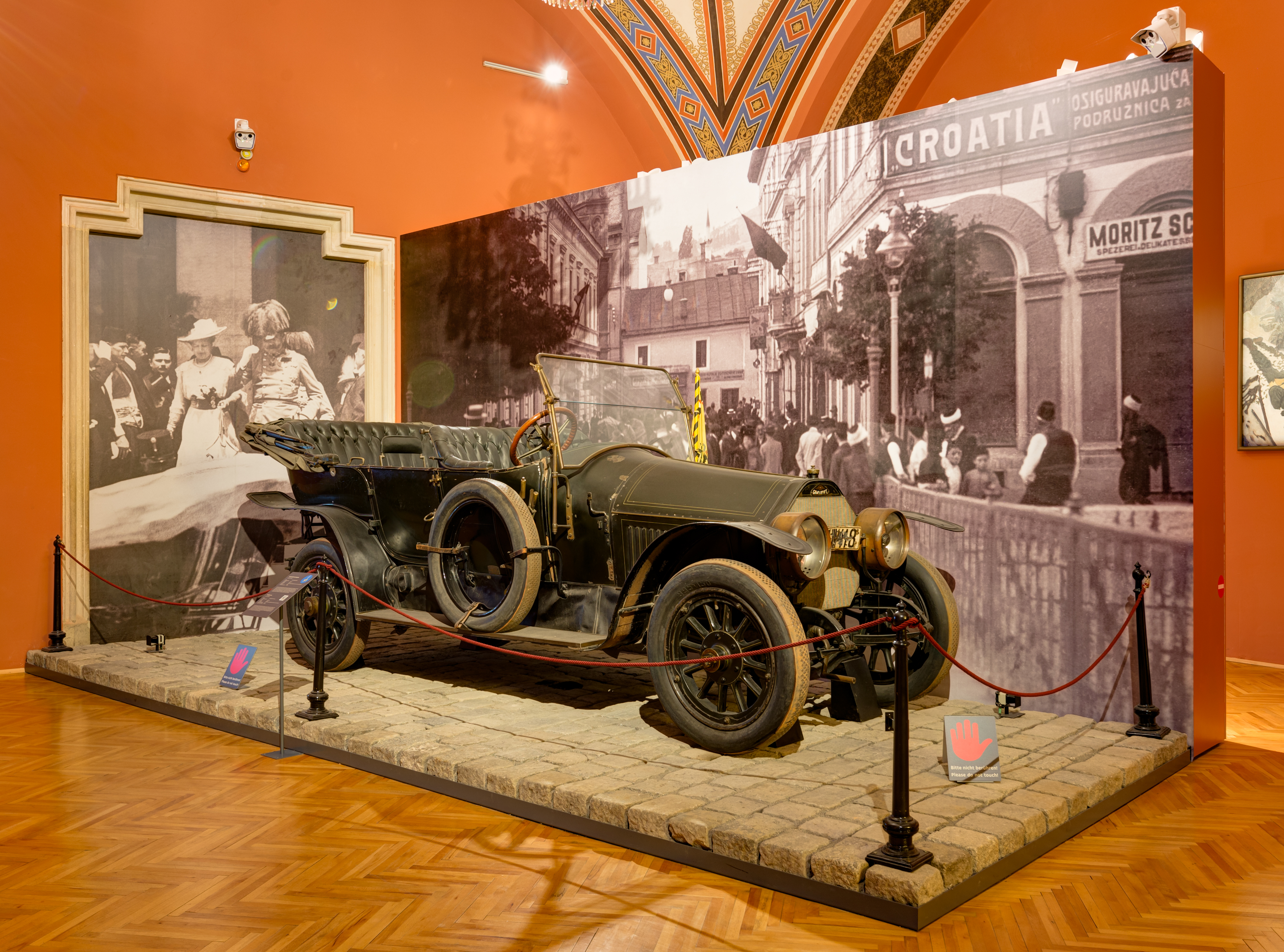 The car that Archduke Ferdinand was shot in photographed in the military museum in Vienna., This image was uploaded as part of European Science Photo Competition 2015.